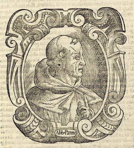 Drawing of Abbas Panormitanus